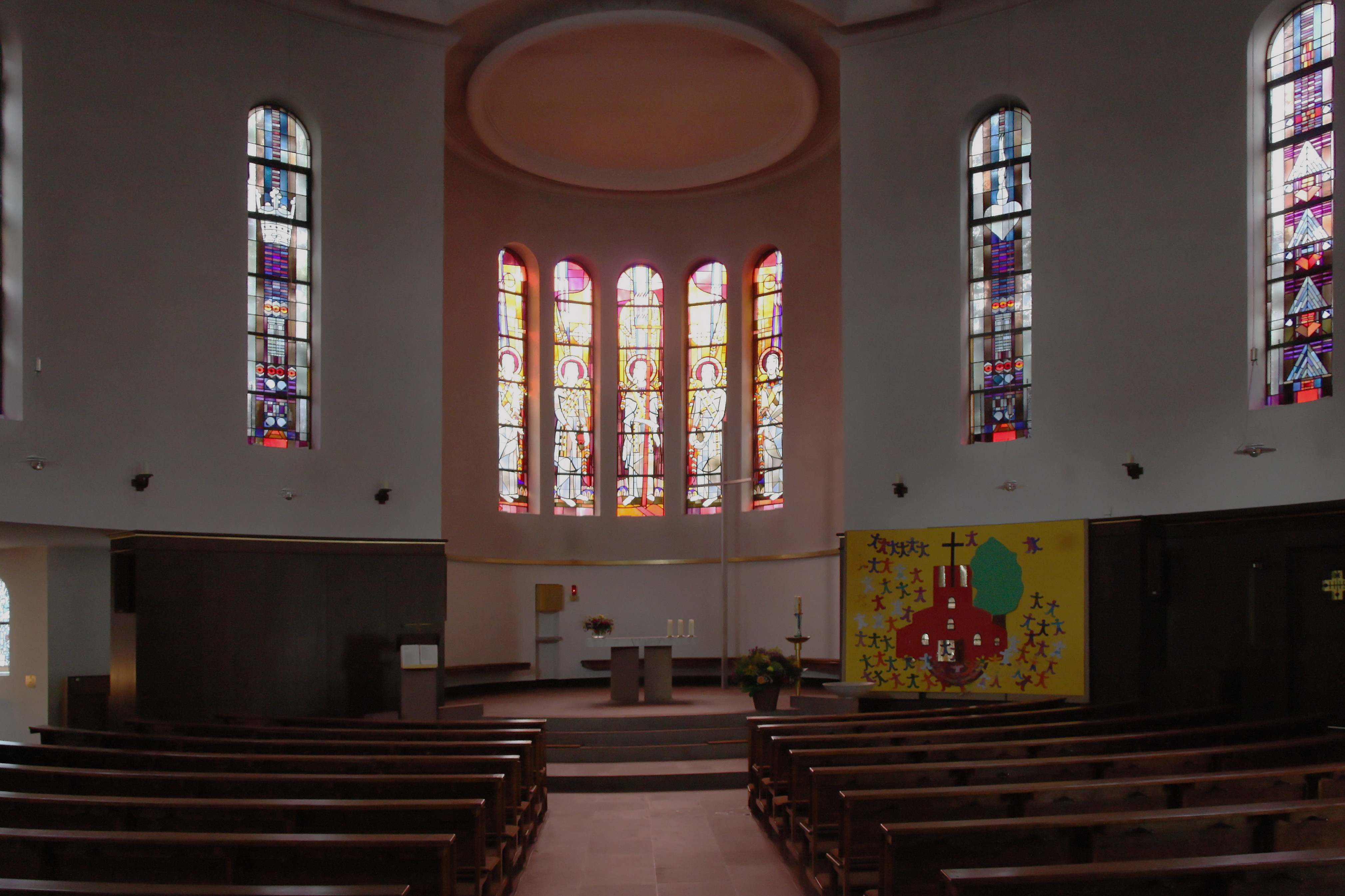 Church Maria Grün (St. Mary in the Green) in Hamburg-Blankenese, interior, view towards the altar